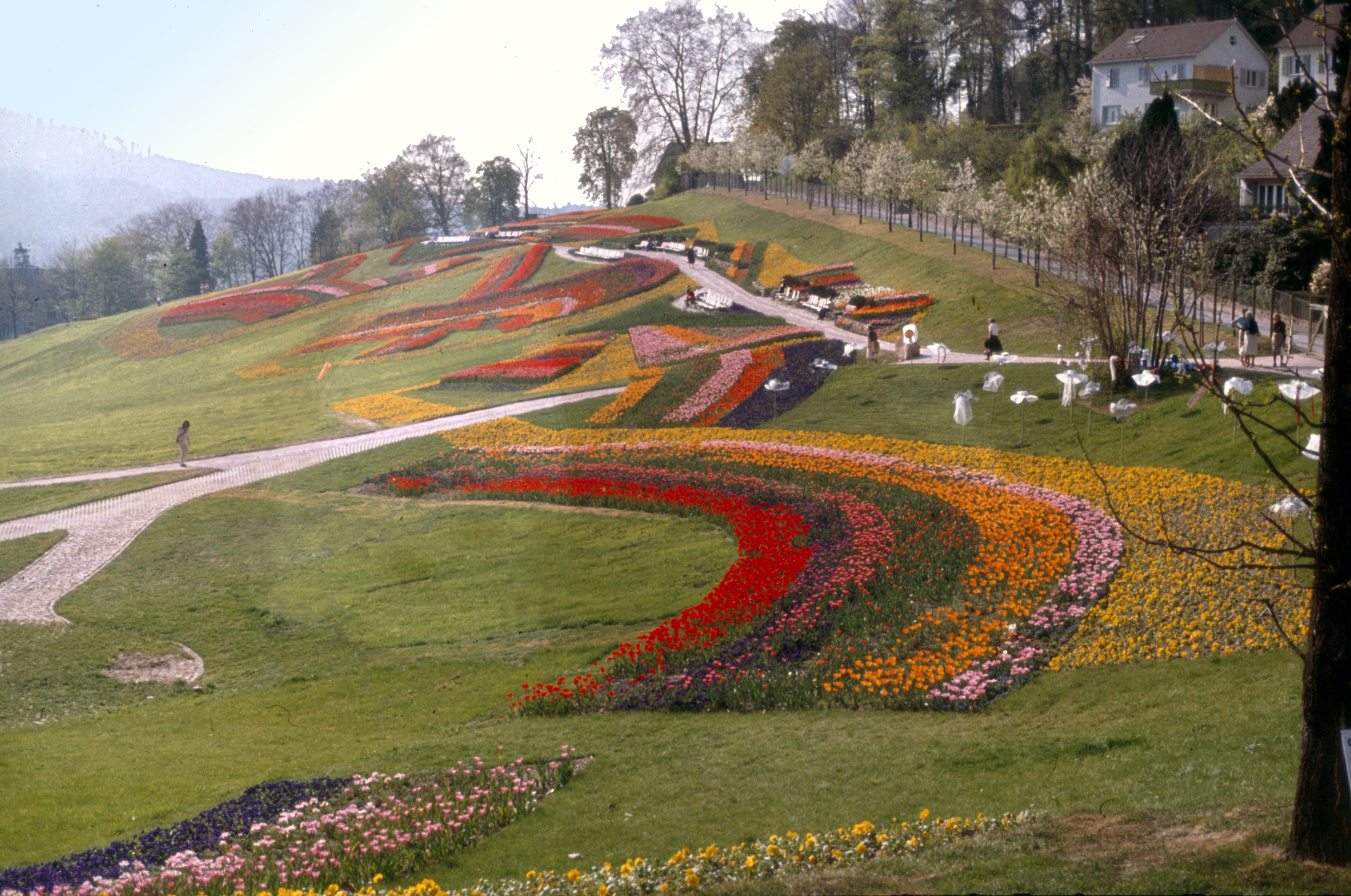 Garden exhibition in Baden-Baden 1981